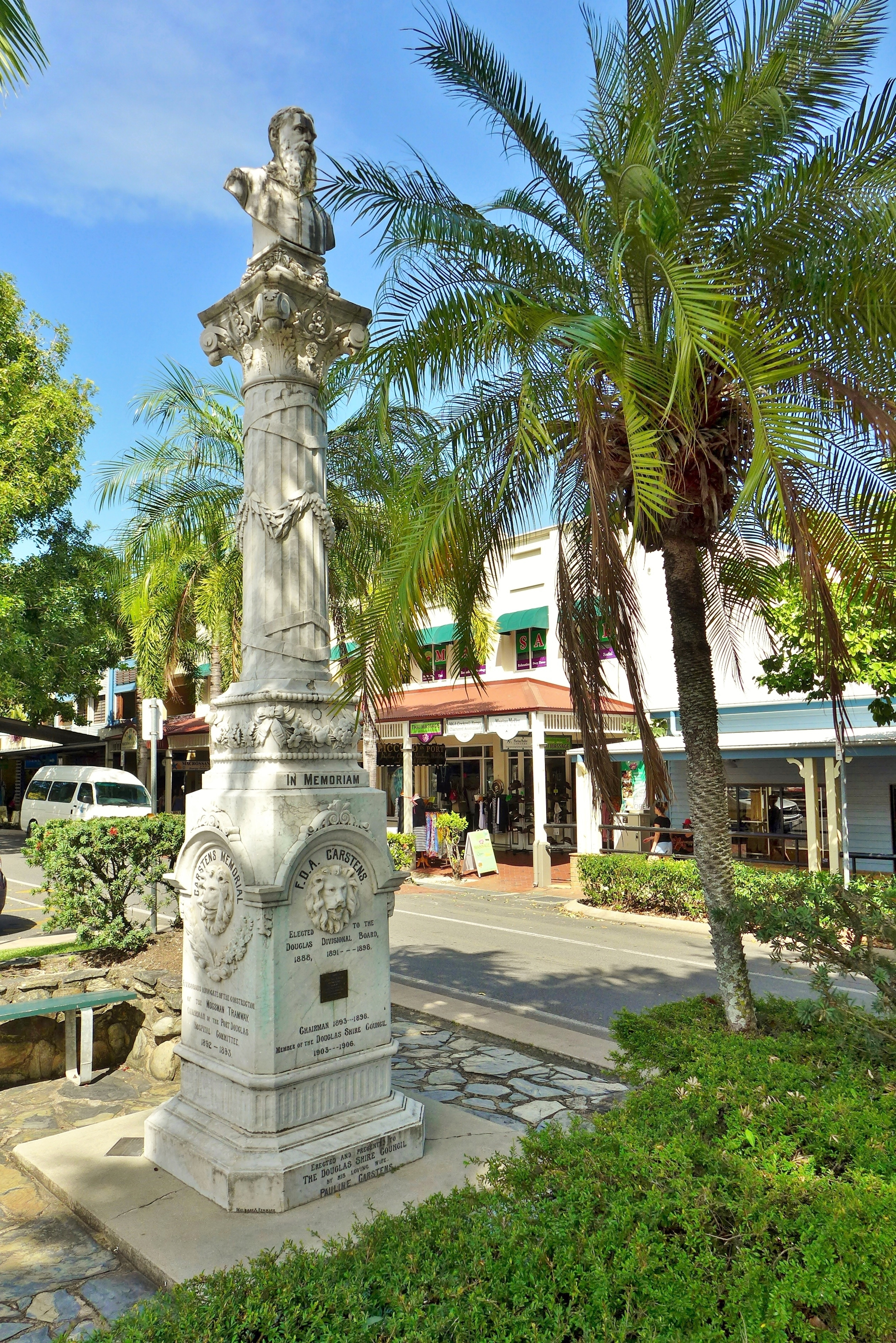 View of the FDA Carstens Memorial in Macrossan Street, the main street of Port Douglas, Far North Queensland, Australia.